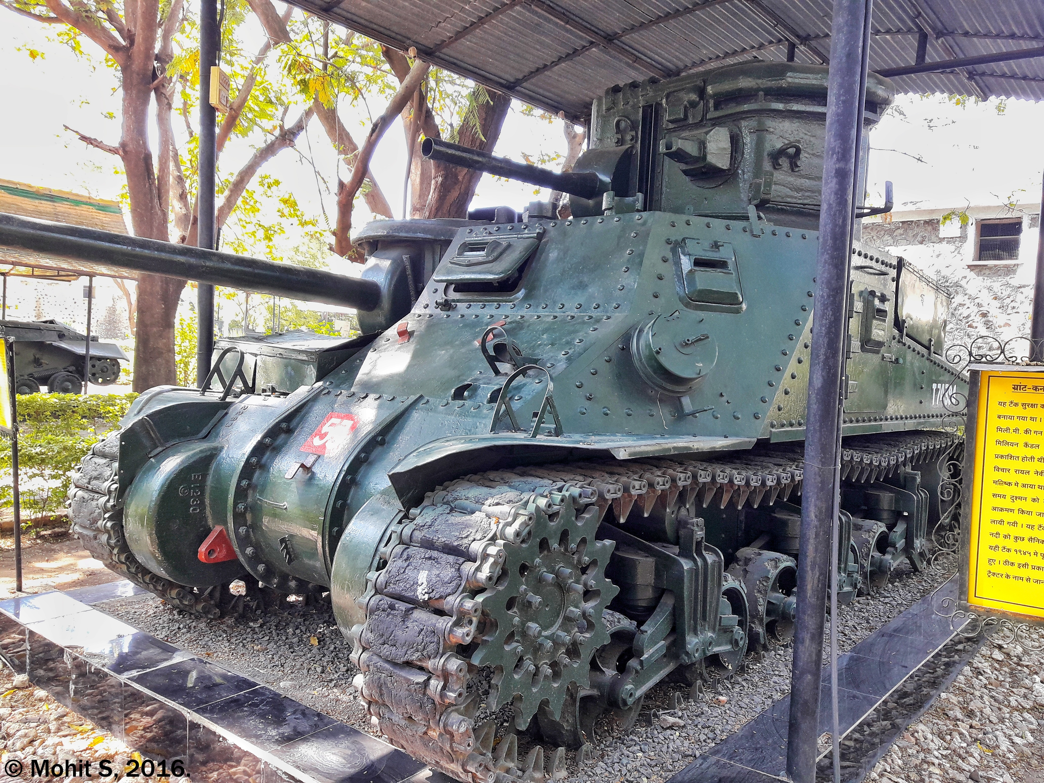 British WW2 M-3 Grant medium Tank. Brother of M-3 Lee Tank. (The picture is been edited) -More informationℹ about the Asia's only historic tank museum can be found here and here Location: Cavalry Tank museum, Maharashtra, India. Clicked from Samsung J7-6.